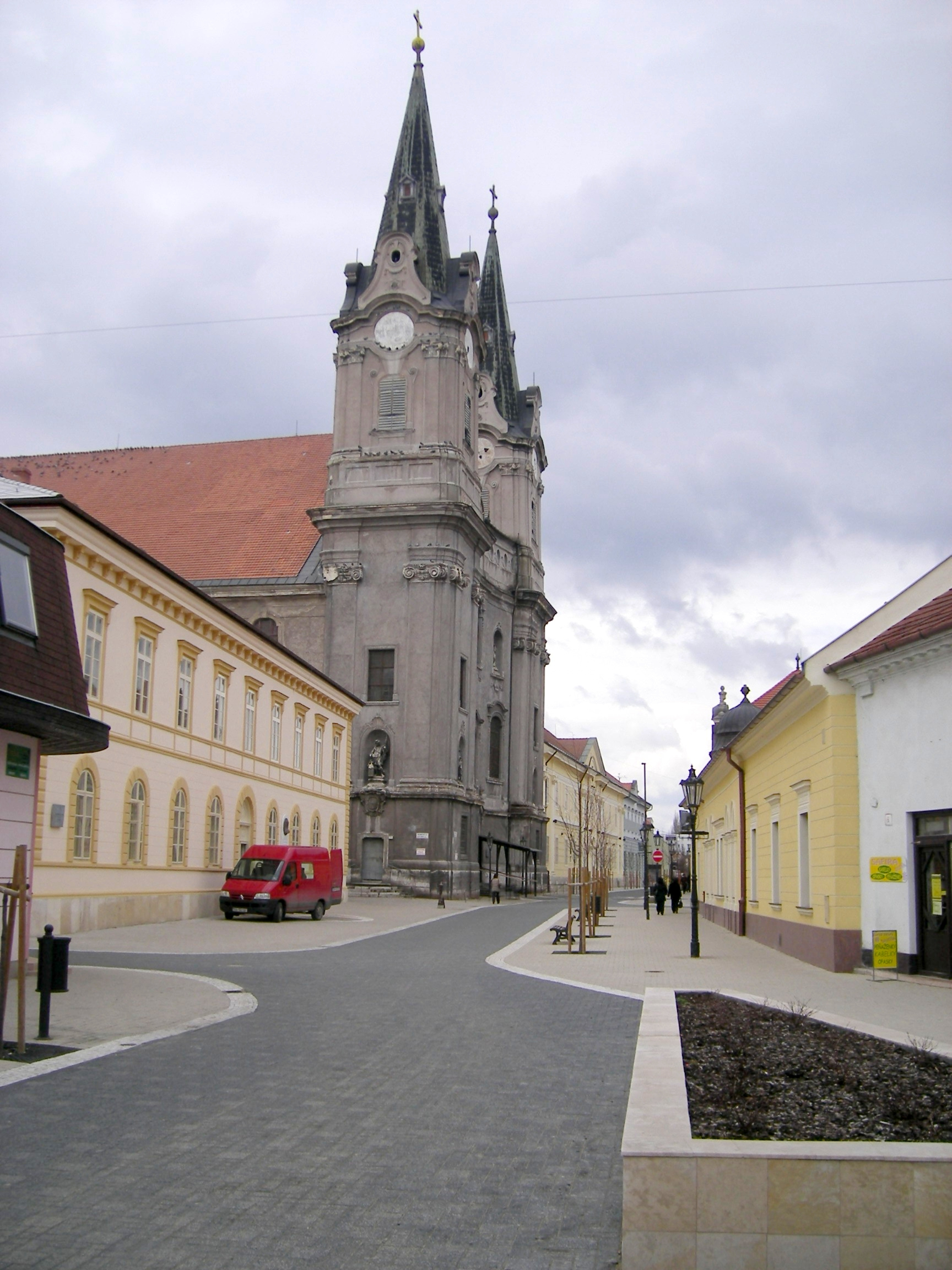 Komárno - catholic Church of St. Andrew.